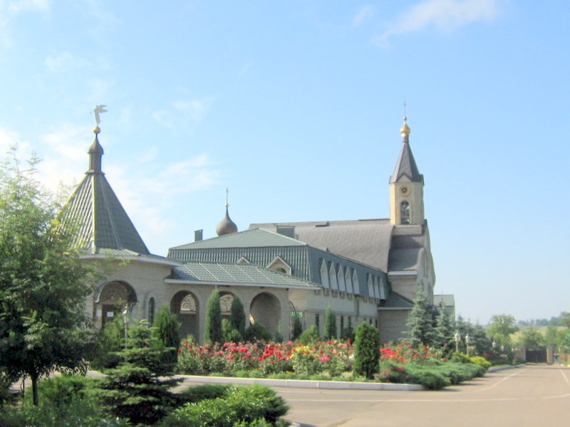 Sainted-Uspenskiy Mikolo-Vasilivskiy monastery